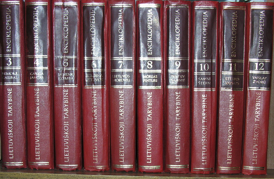 Soviet Lithuanian Encyclopedia